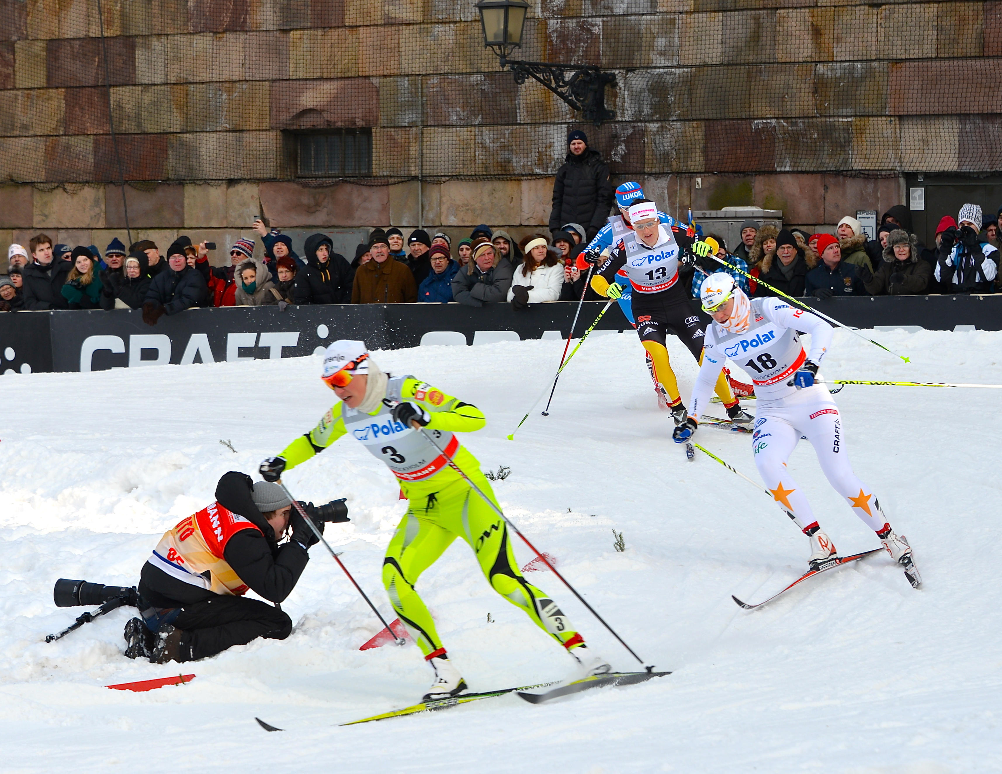 Ida Ingemarsdotter at the Royal Palace Sprint, part of the FIS World Cup 2012/2013, in Stockholm on March 20, 2013.